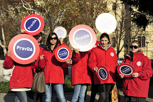 Volunteers for the Josipović campaign in the Croatian presidential election, 2009-2010